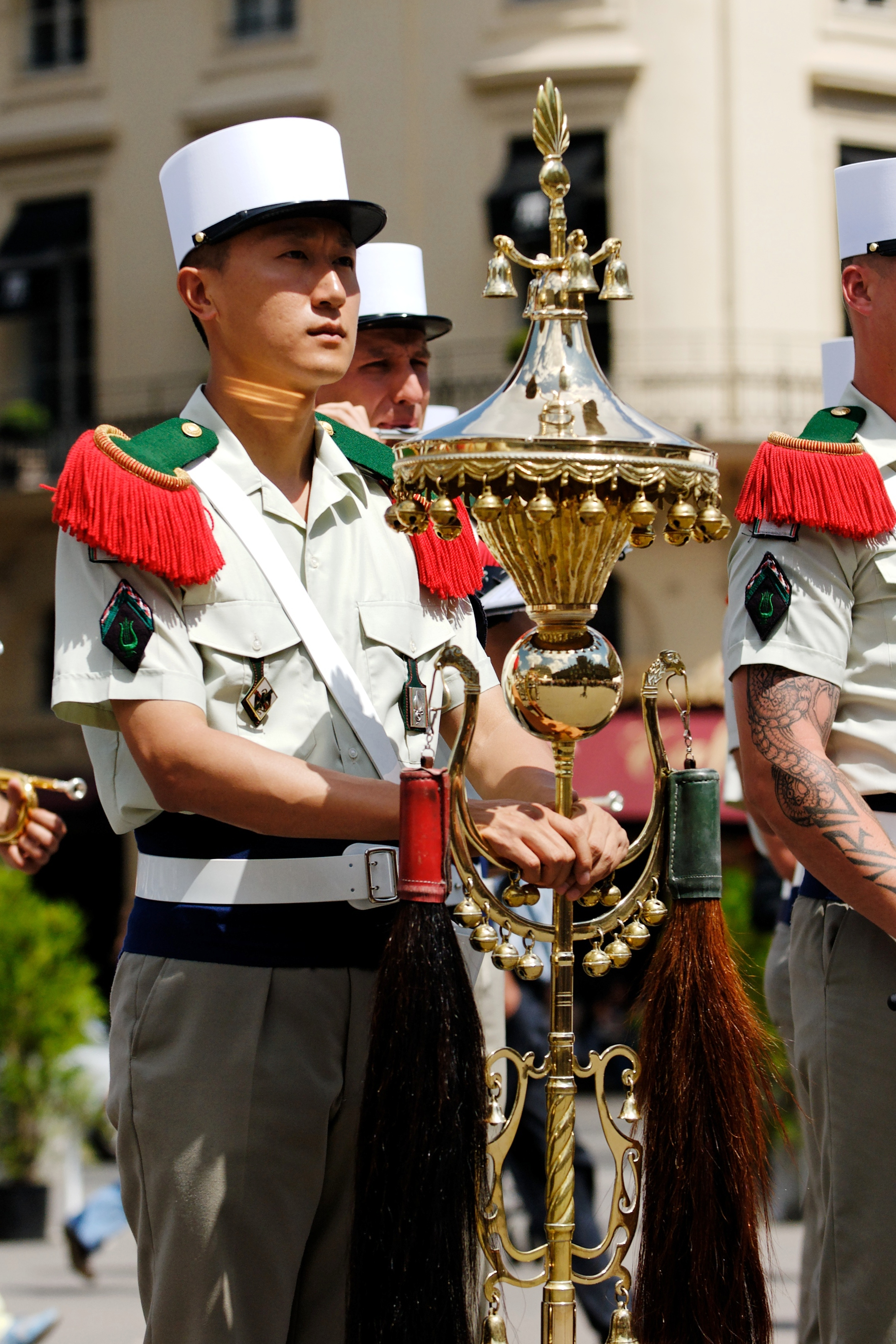 Soldier of the Music of the French Foreign Legion with the so-called "Jingling Johnny" during the celebrations of Bastille Day 2008 in Paris.